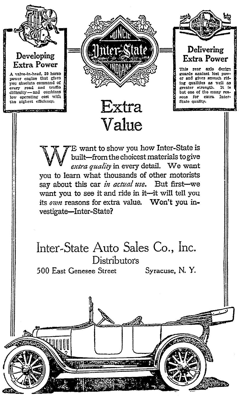 Inter-State Motor Company - Advertisement